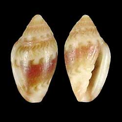 Species: Marginella anna Jousseaume, 1881 data: Bazaruto Is., Mozambique L 5mm